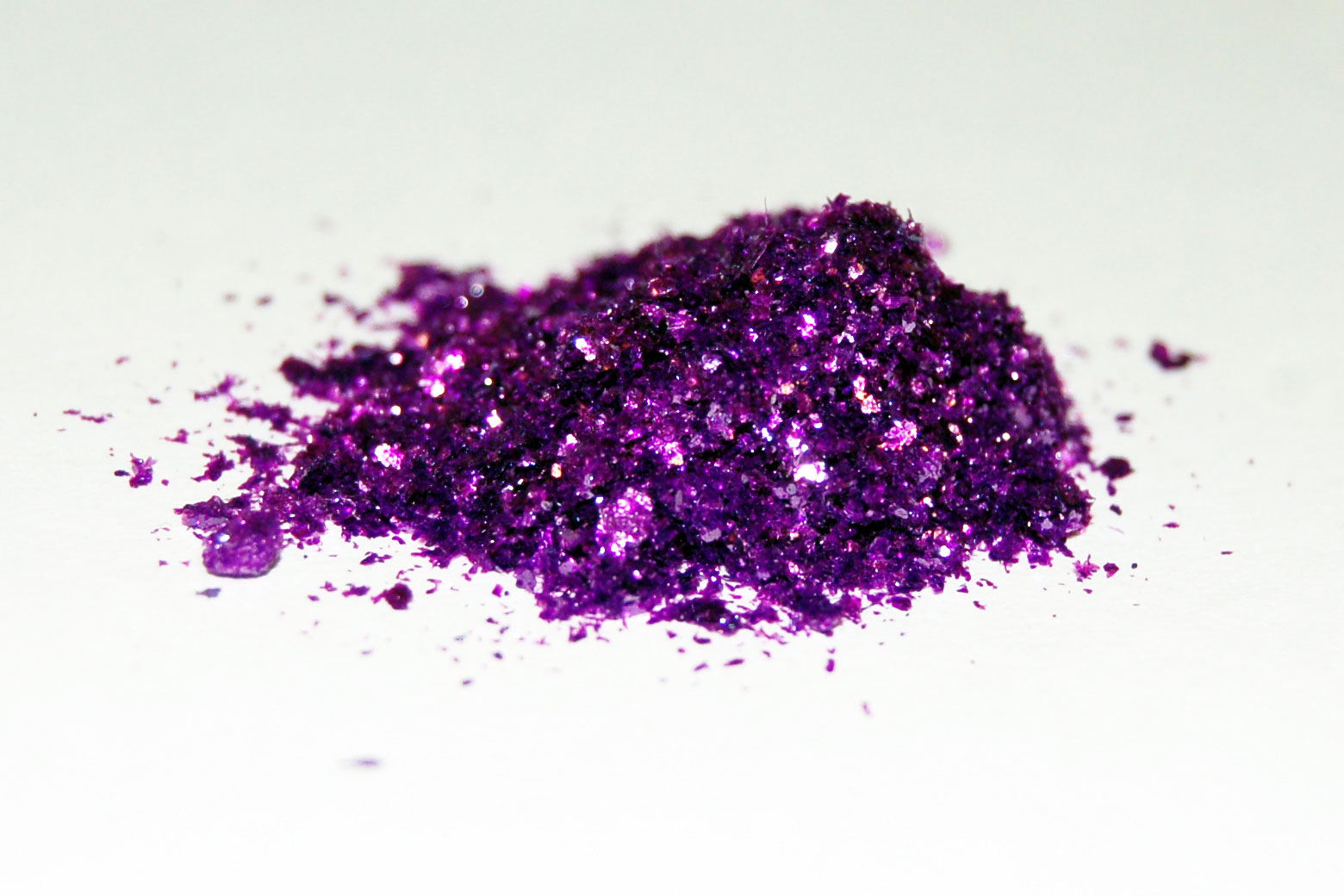 Photograph of a sample of anhydrous chromium(III) chloride, CrCl3. Sample from Aldrich (99%, sublimed), CAS # 10025-73-7.